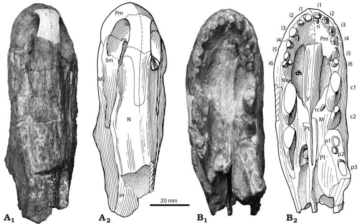 Partial skull of the basal therapsid Raranimus dashankouensis gen. et sp. nov., IVPP V15424 (holotype) from Middle Permian Xidagou Formation,Dashankou, Xumen, Gansu, China, in dorsal (A) and ventral (B) views. Photographs (A1, B1) and explanatory drawings (A2, B2). Abbreviations: c1–2, ca−nine 1–2; ch, choana; en, external naris; i1–6, incisor 1–6; M, maxilla; N, nasal; p1–3, postcanine 1–3; Pf, prefrontal; Pl, palatine; Pm, premaxilla; Pt,pterygoid; rc, replacement canine; ri, replacement incisor; Sm, septomaxilla; sp, small precanine maxillary tooth; V, vomer.